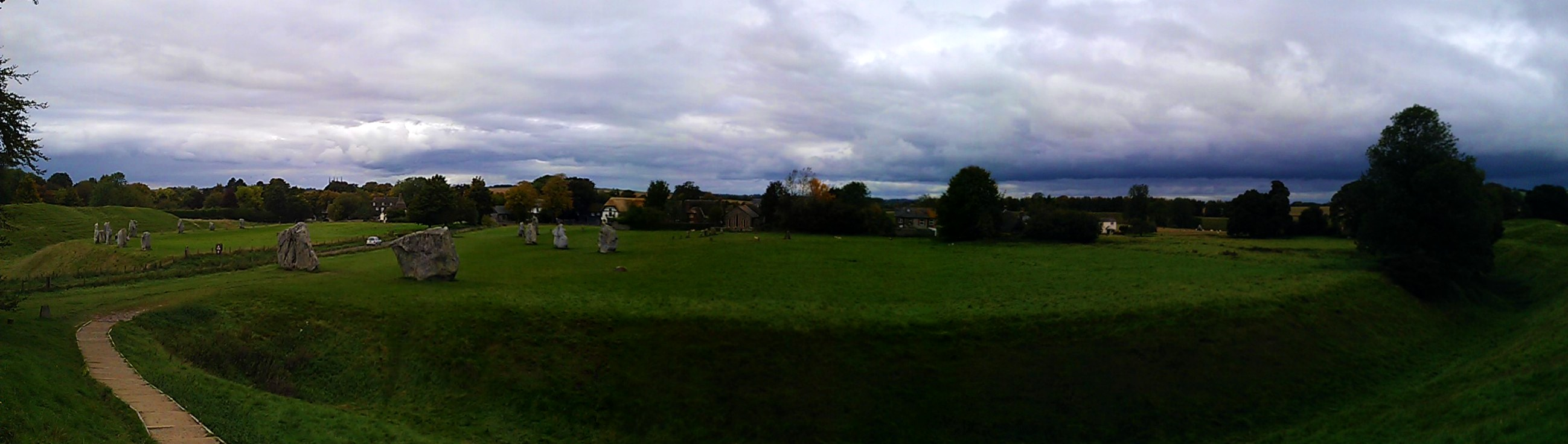 Panoramic view of the stone circle and henge at Avebury, located in Avebury, Wiltshire.